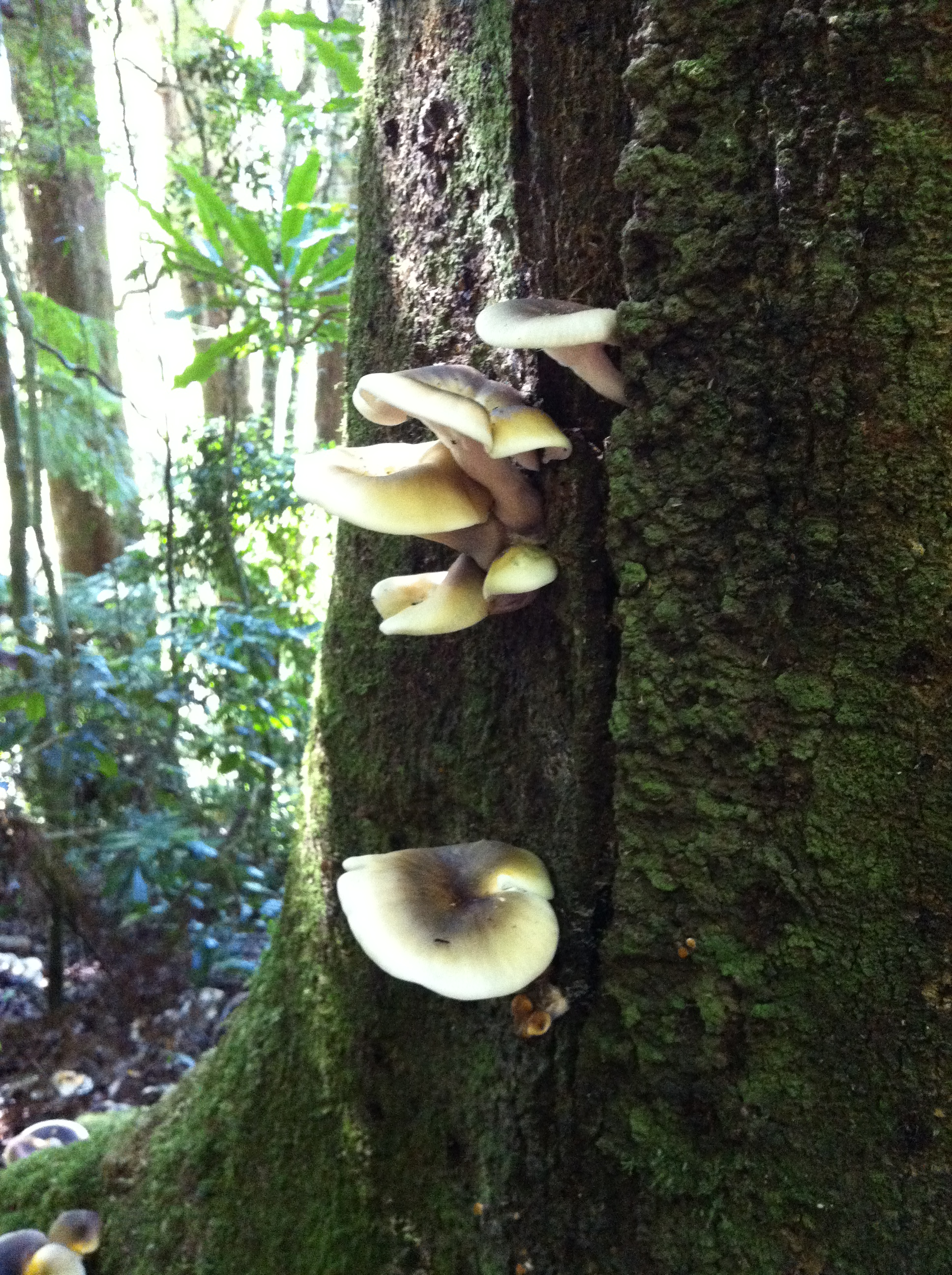 Rainforest Fungi - Lamington National Park Australia